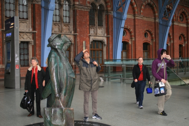 St Pancras Station, London